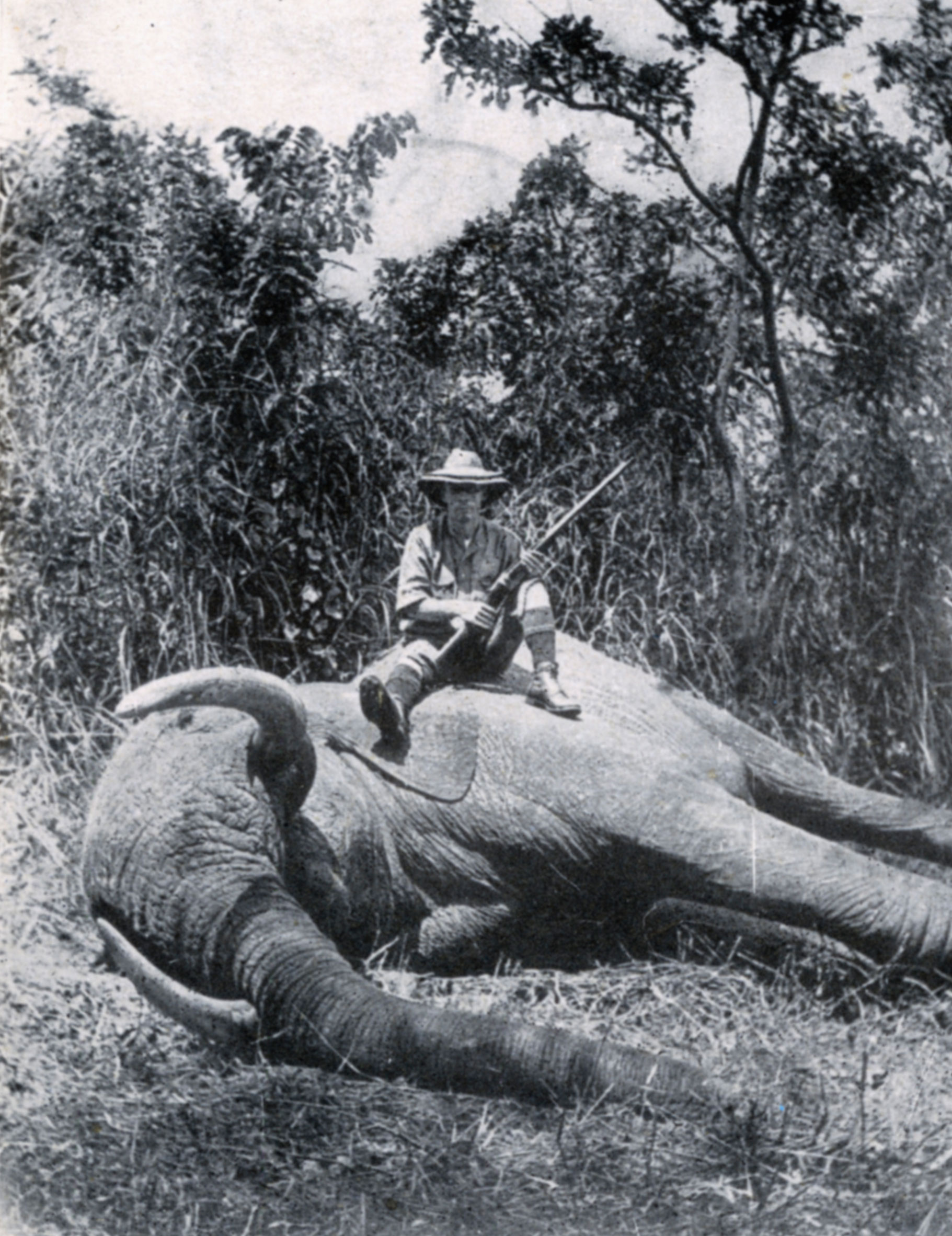 James H Sutherland and .577 Nitro Express Westley Richards droplock double rifle on top of an elephant he shot